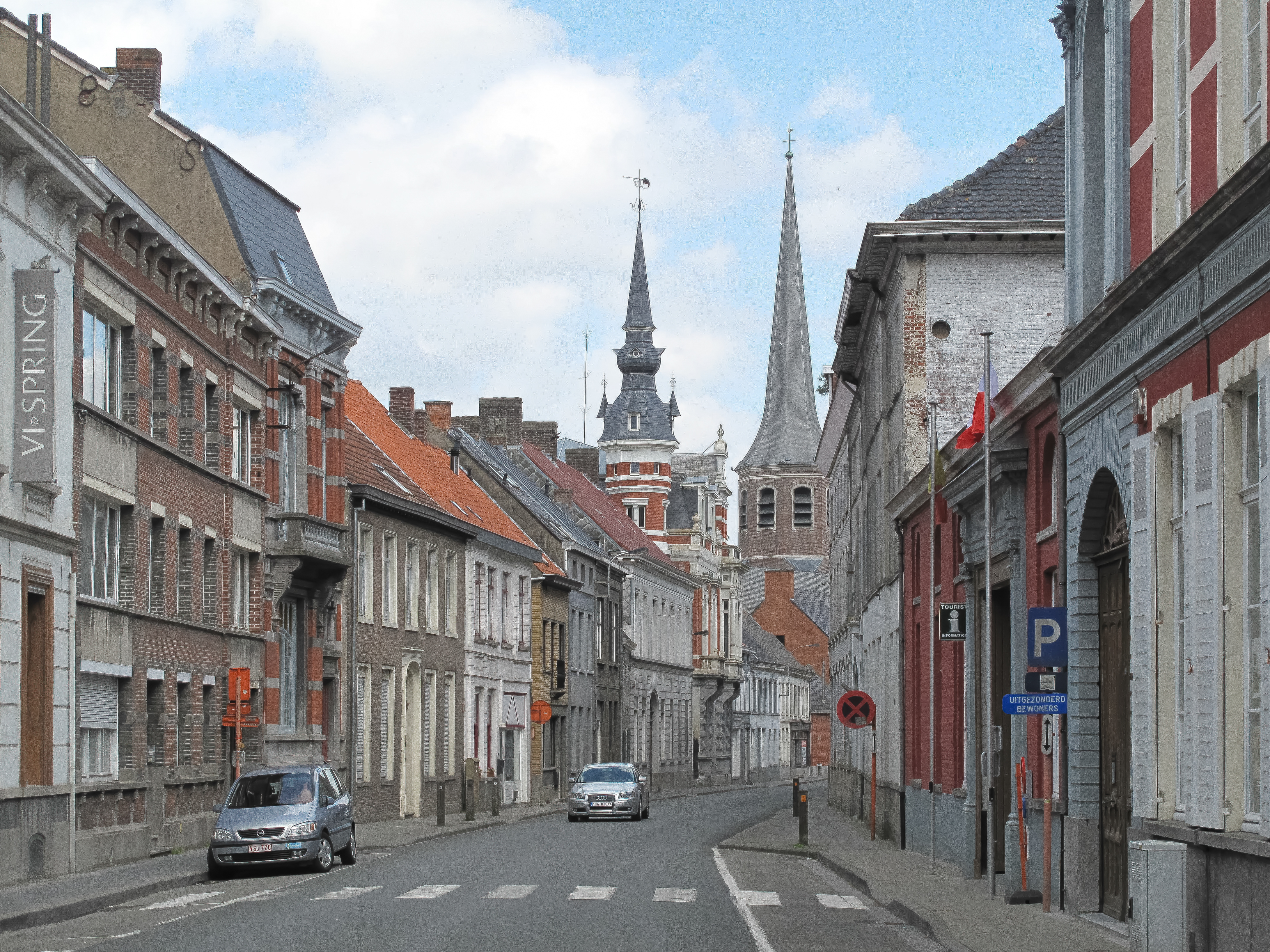 Tielt, tower from Huis Denys and church (Sint Pieterskerk) in the street, taken from Ieperstraat